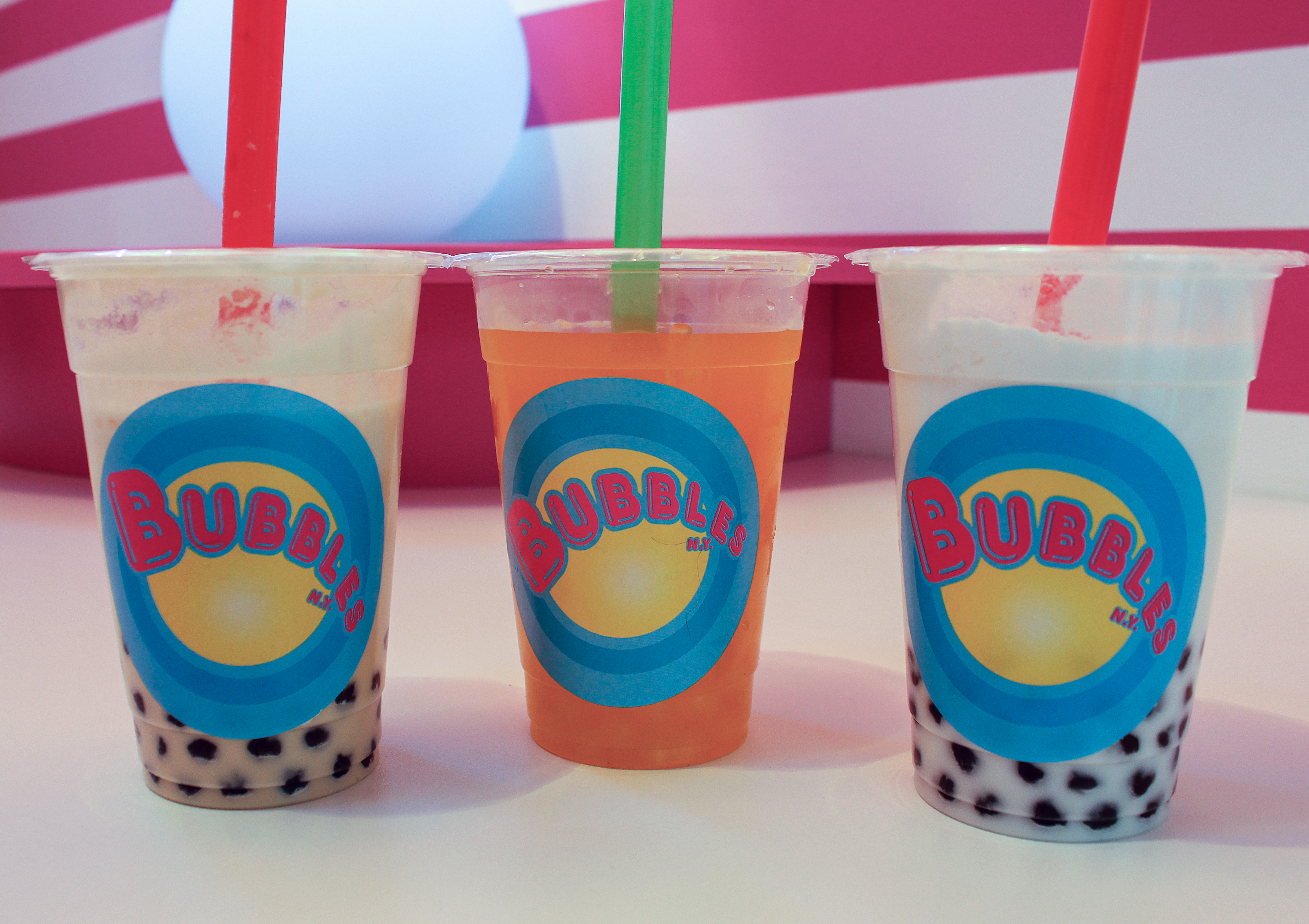 Bubble Tea in Germany